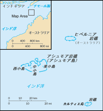 Ashmore and Cartier Islands map